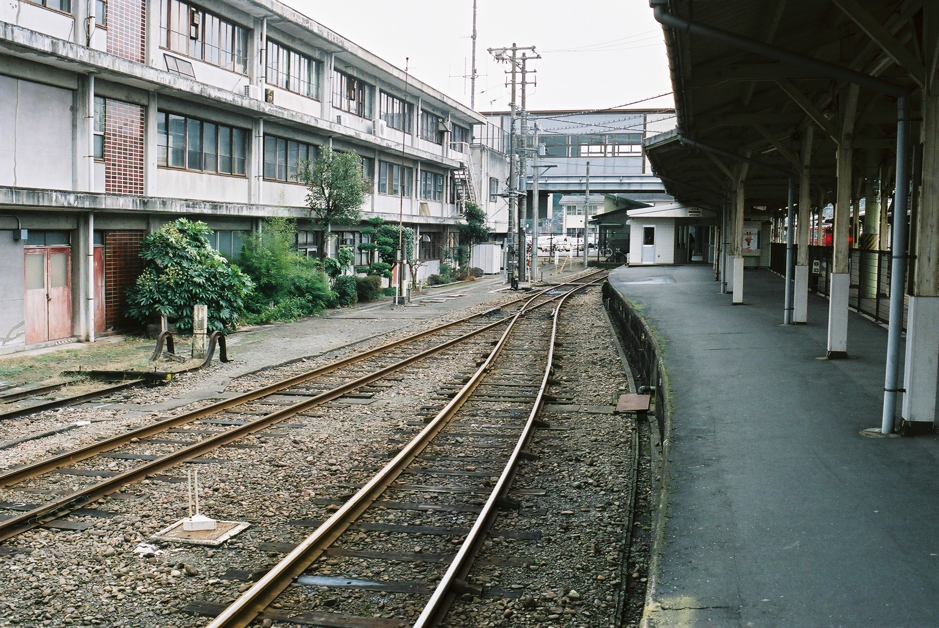 Toyooka station (Hyogo prefecture) Miyazu line engine running track